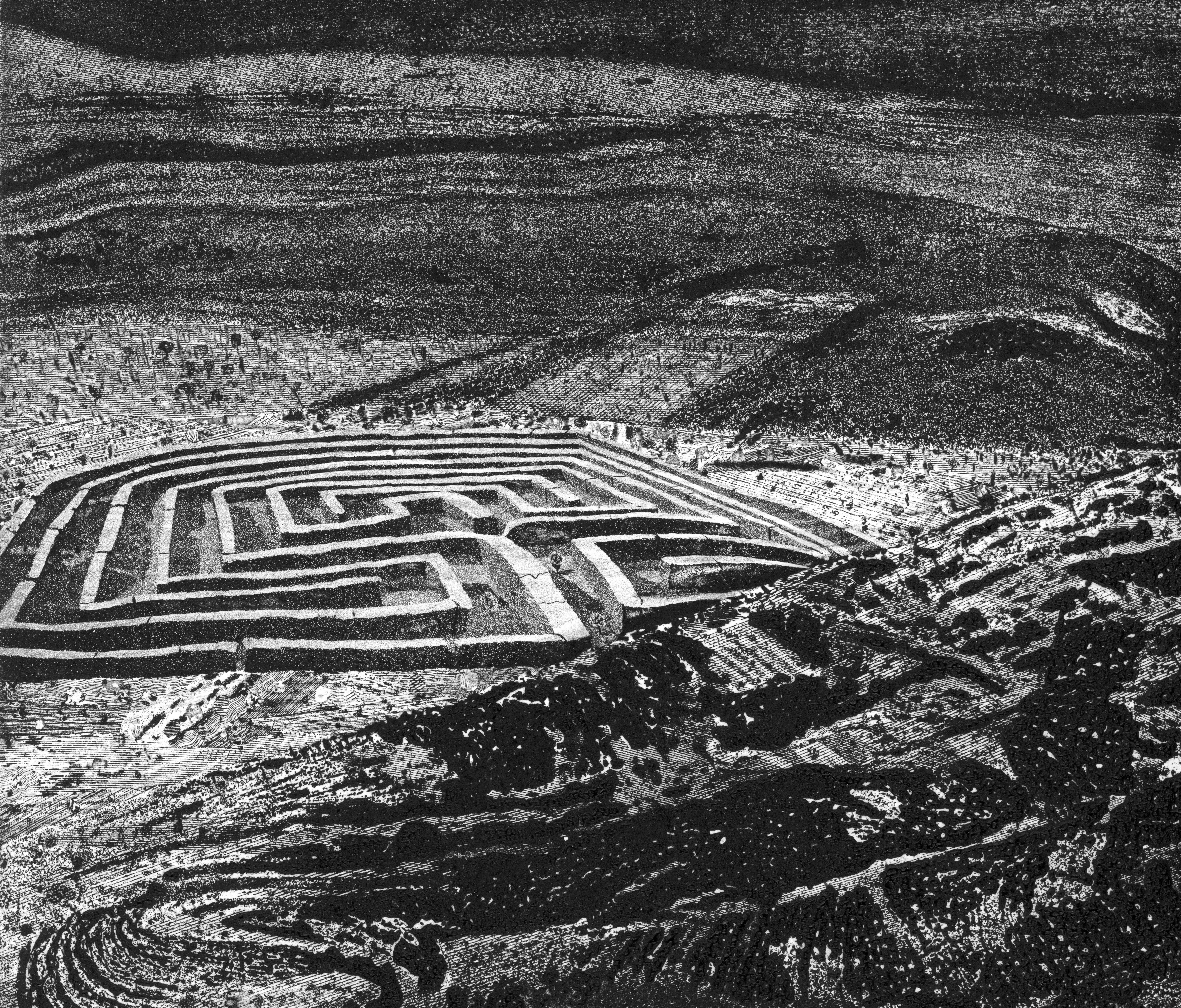 Labyrinth X, etching, aquatint, soft-ground etching, Engraved and designed by Toni Pecoraro 1997.